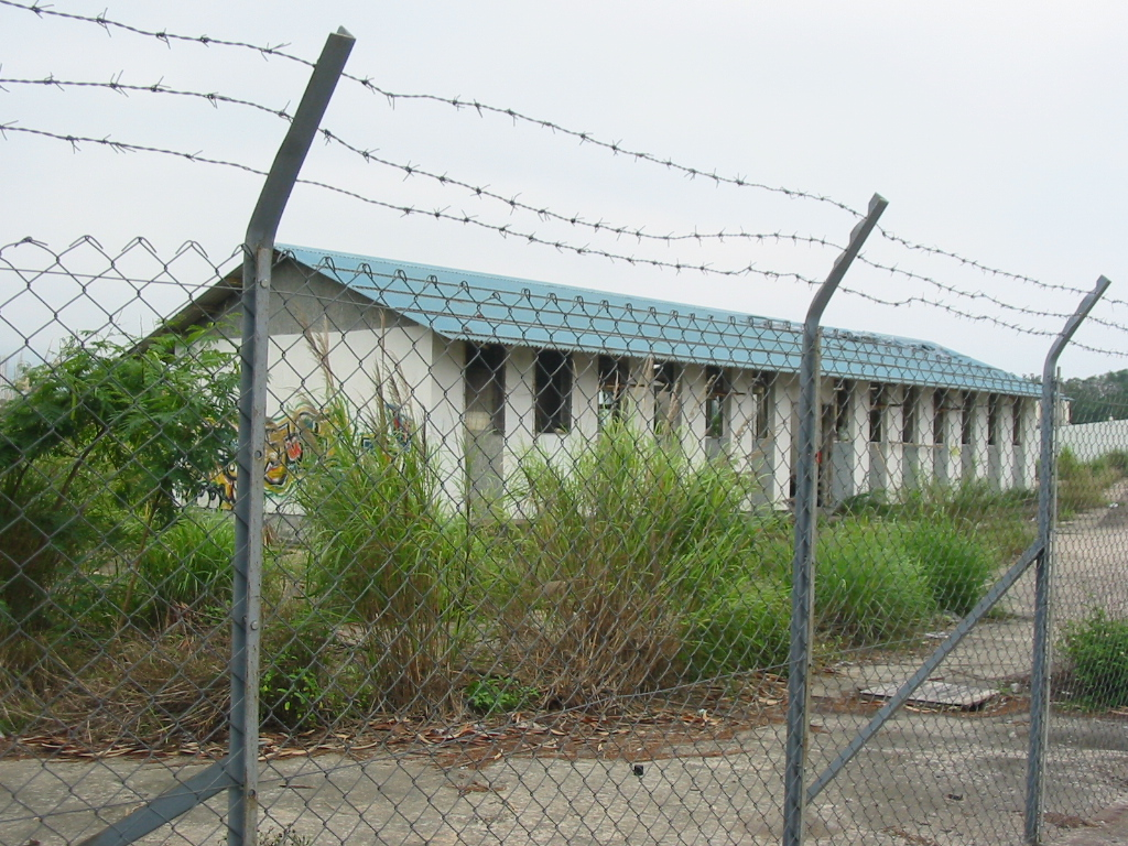 Whitehead camp waiting for demolition. It had been used for adopting Vietnamese boat people in past.